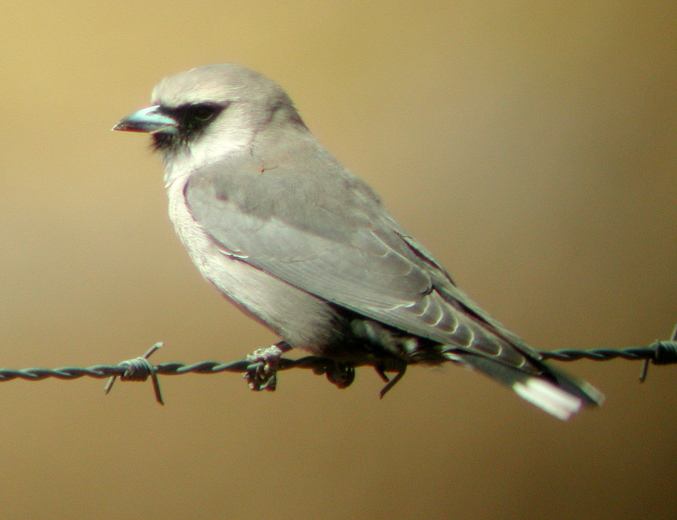 Black-faced Woodswallow (Artamus cinereus)